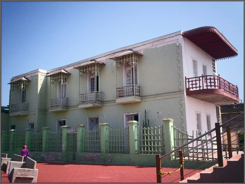 Vieja casona en el barrio de Chucuito, distrito de La Punta, en la Provincia del Callao